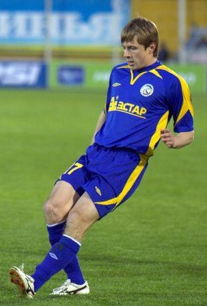 Maksim Burchenko in action for FC Rostov